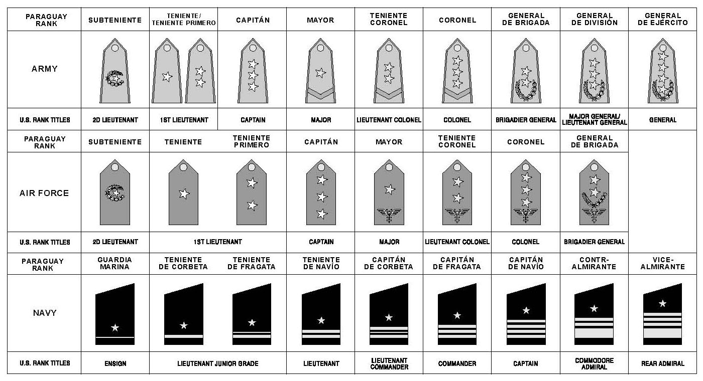 Paraguayan Military Officer Ranks and their US Armed Forces Equivalence